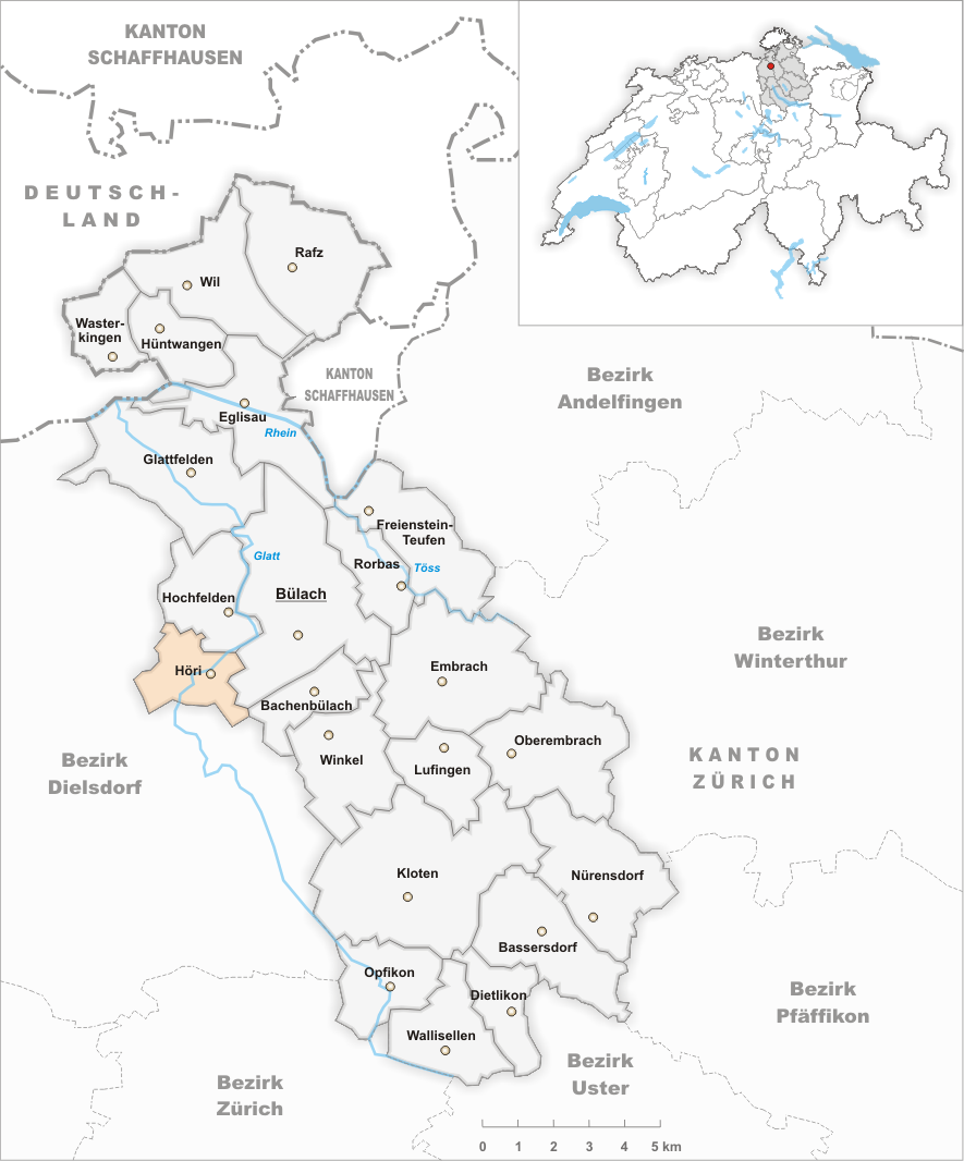 Municipality Höri